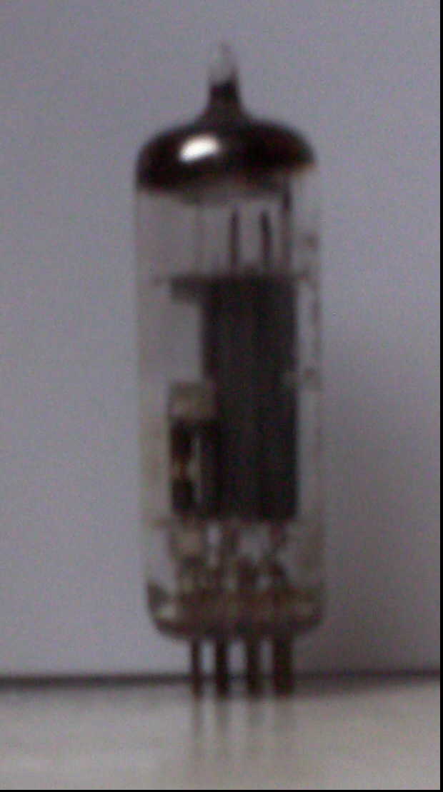 Polish vacuum tube PCL86 (POLAMP)